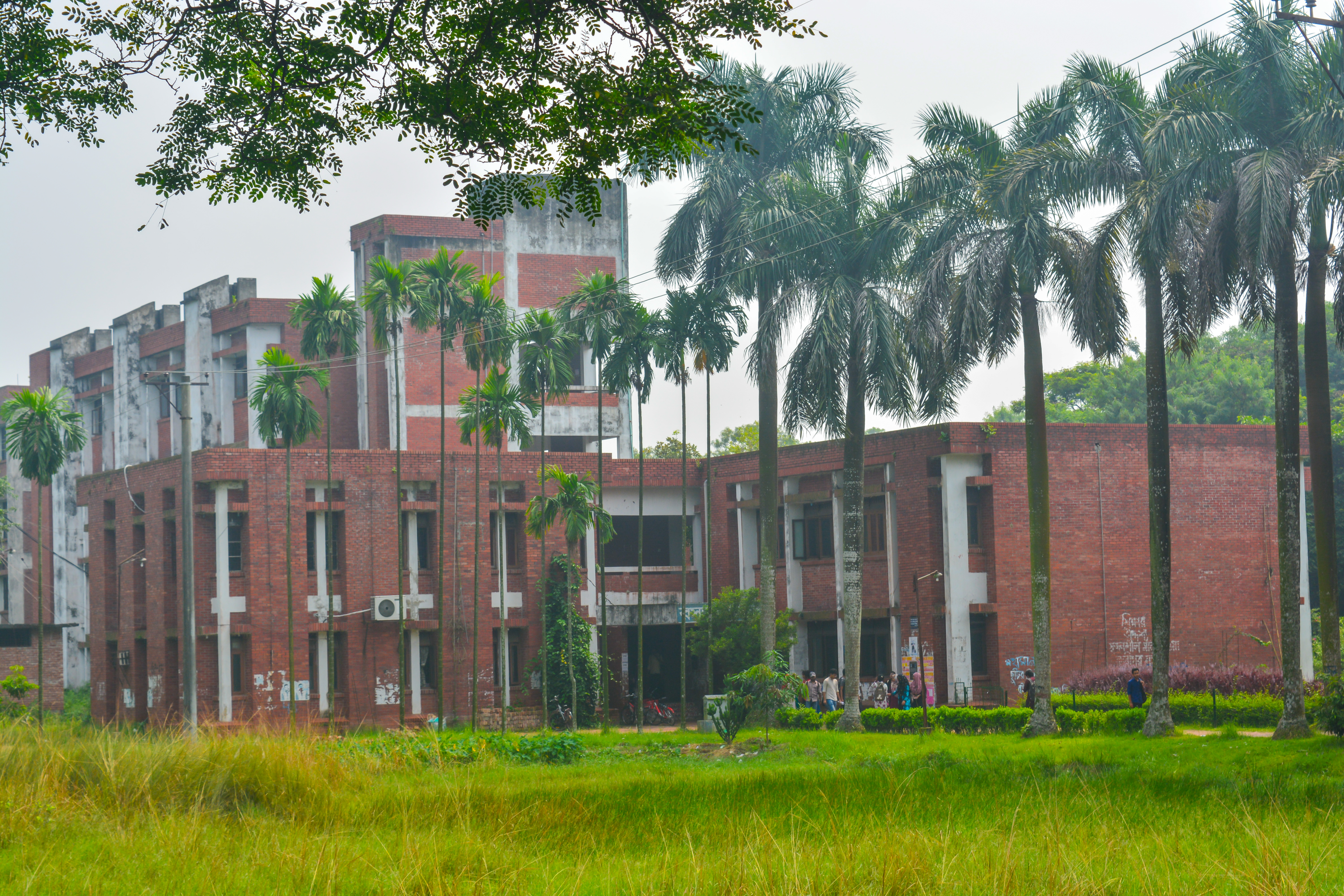 This department has started its journey in the year of 1974. It is one of the famous and raputed departments in Bangladesh.This department has a distinguished records in teaching also. This department is trying its utmost from its birth with a view to making the students fit for facing the challenges of 21st century by providing them a benign working atmosphere. The faculty members have excellent academic credentials and are highly professional. They have been conferred with many prestigious awards at national and international levels. Several faculty members are serving in the editorial boards of national and international journals, reviewing scientific research articles for journals on a regular basis, and organizing international symposia and conferences.